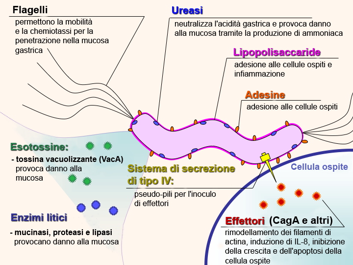 Schematic diagram of virulence factors of Helicobacter pylori, with Italian annotation